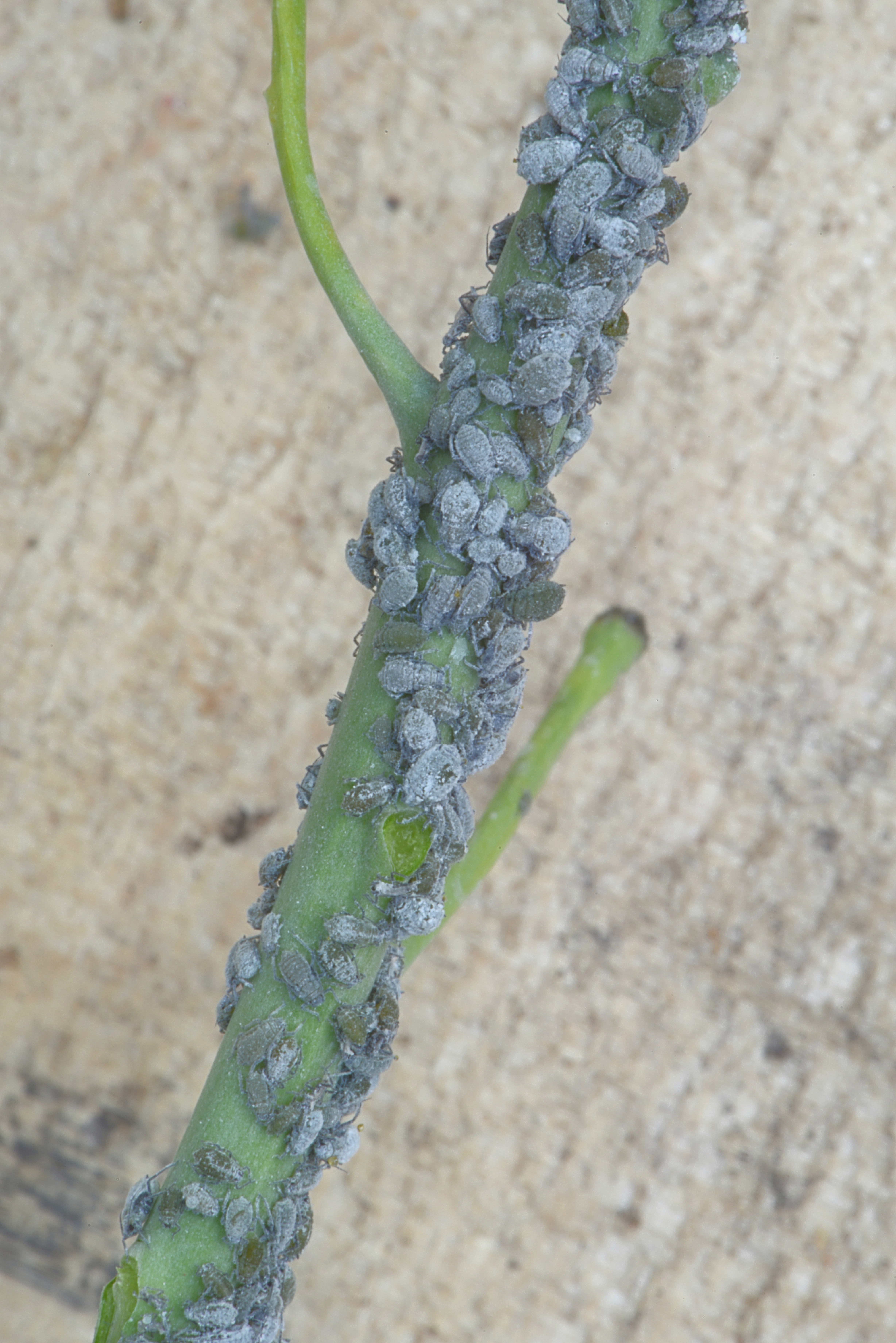 Brevicoryne brassicae on Brassica oleracea curley kale